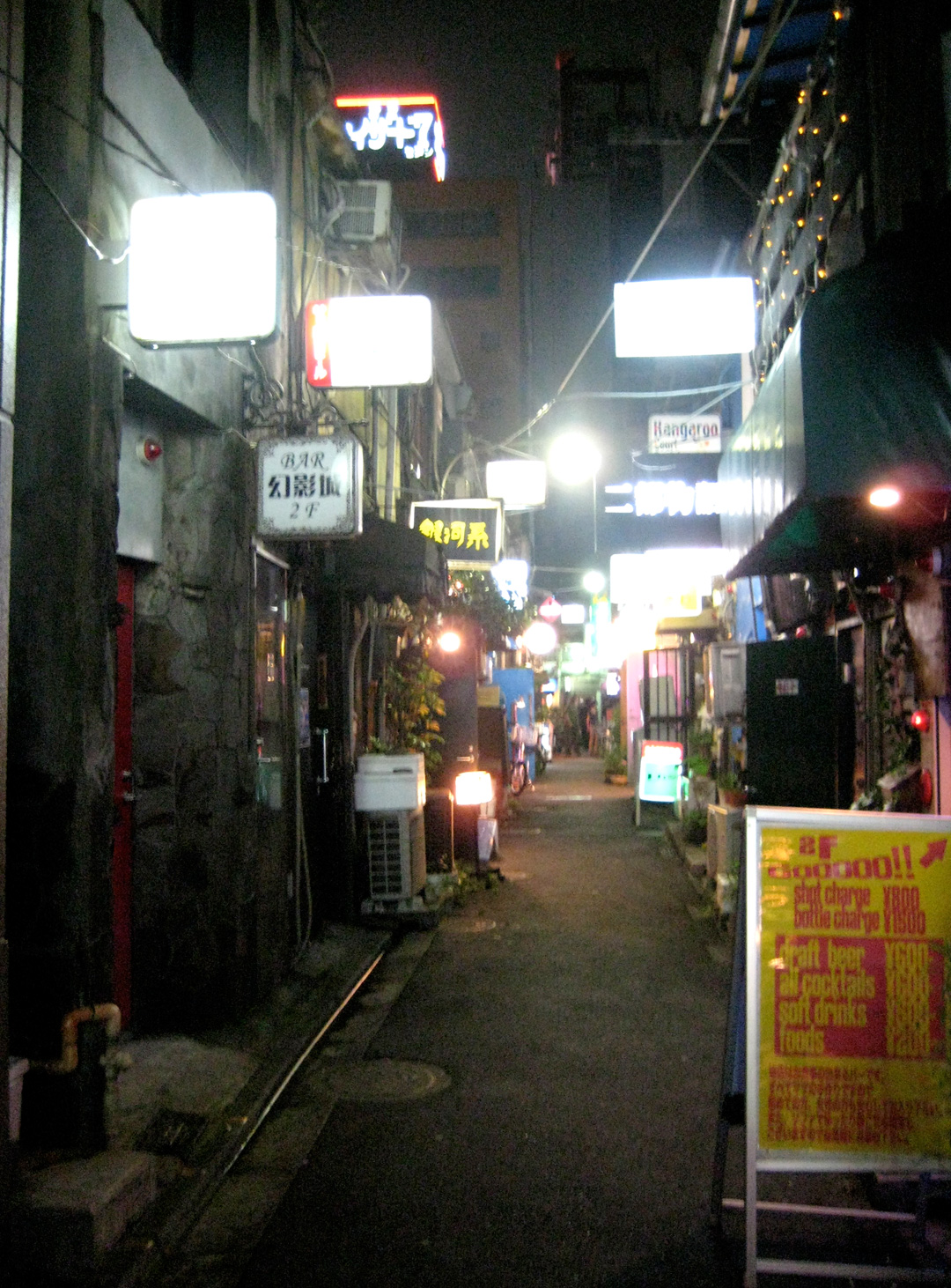 Snapshot of a Golden Gai alley. Taken on 7/20/2007.